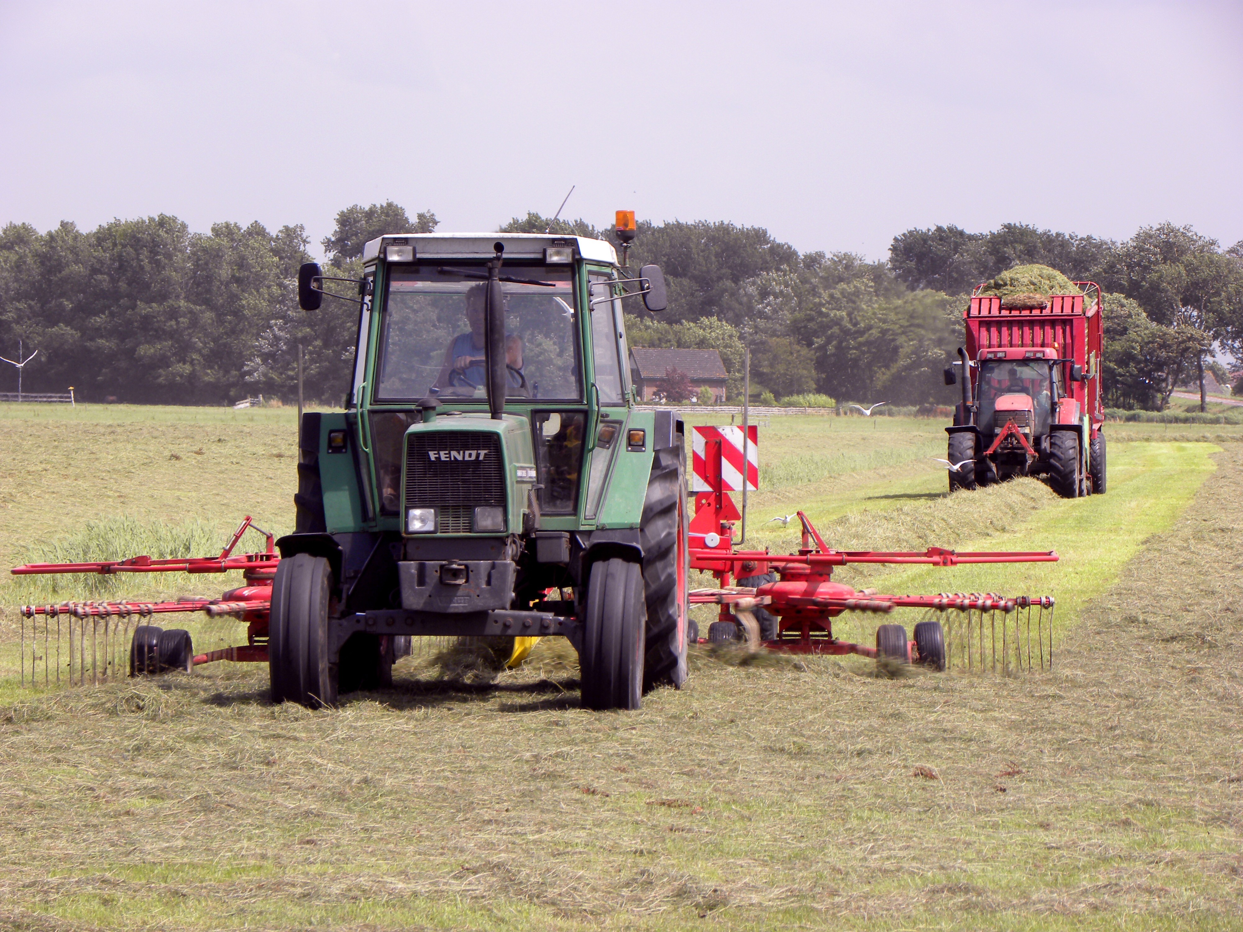 A Fendt Farmer 309 LS tractor with a Pöttinger TOP 700 A rotary hay rake, followed by a Case IH MX135 tractor with a Strautmann loader wagon